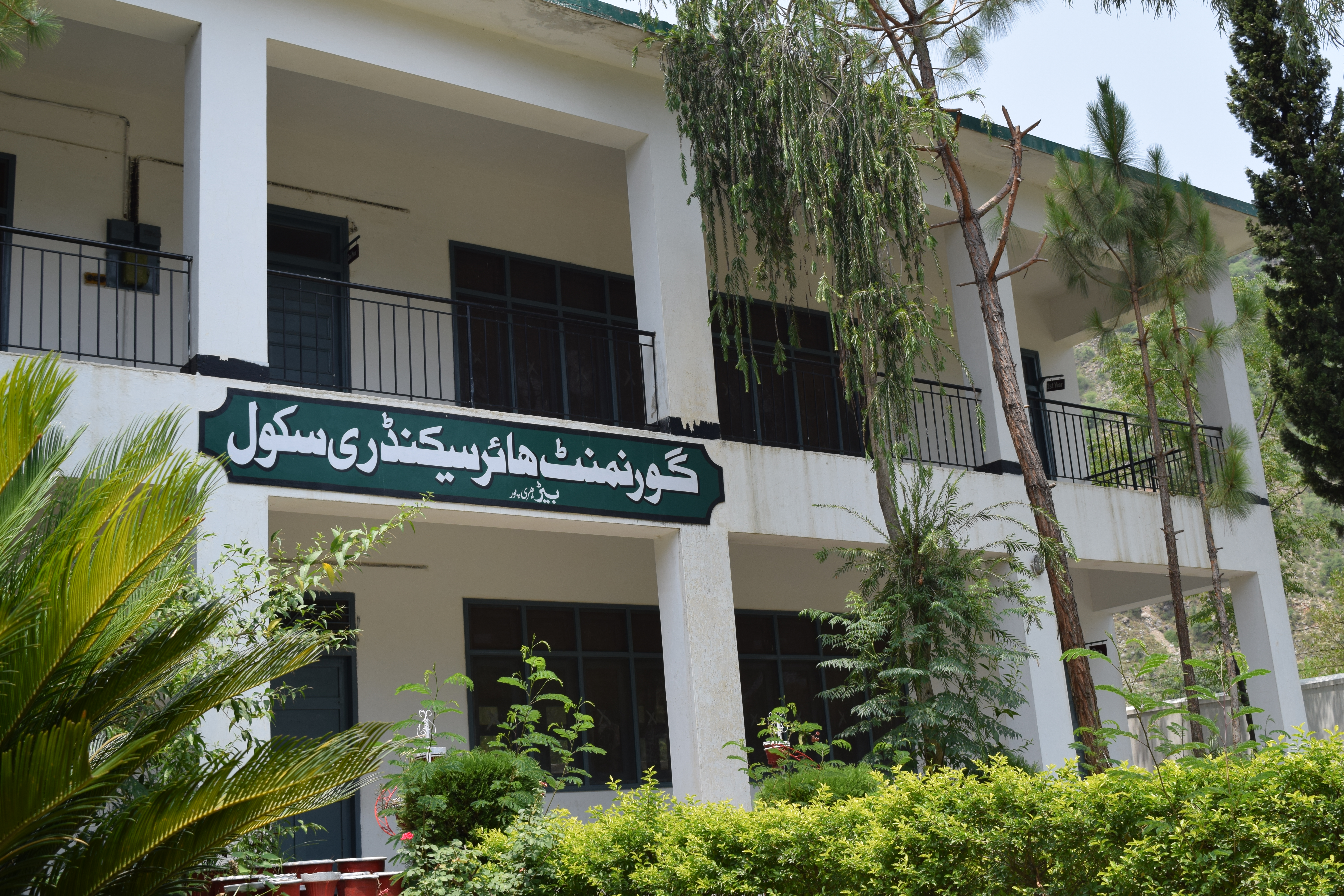 Beer school, Haripur District, Khyber Pakhtunkhwa, Pakistan